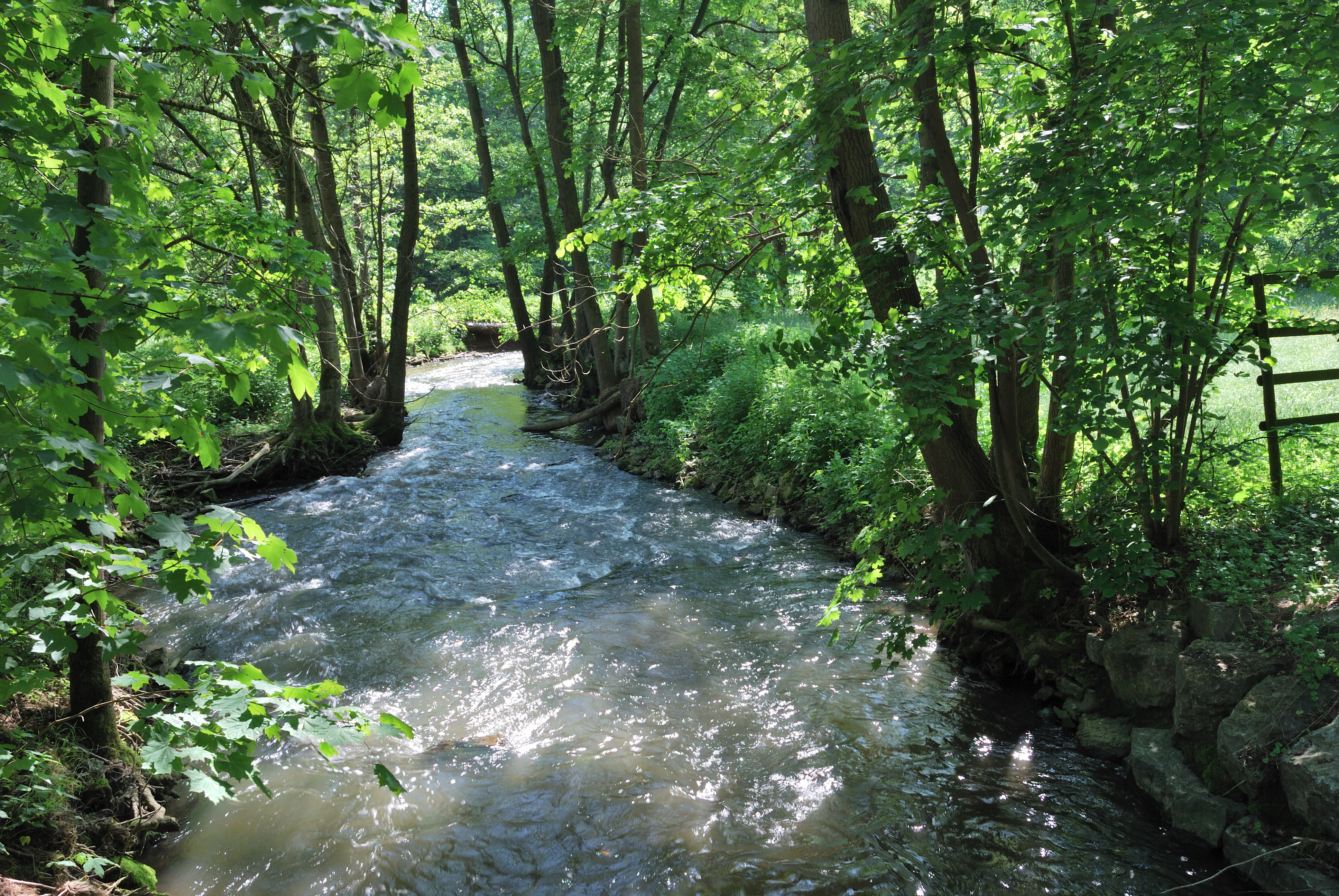 The river Glems near Untere Mühle in Markgröningen in Southern Germany.